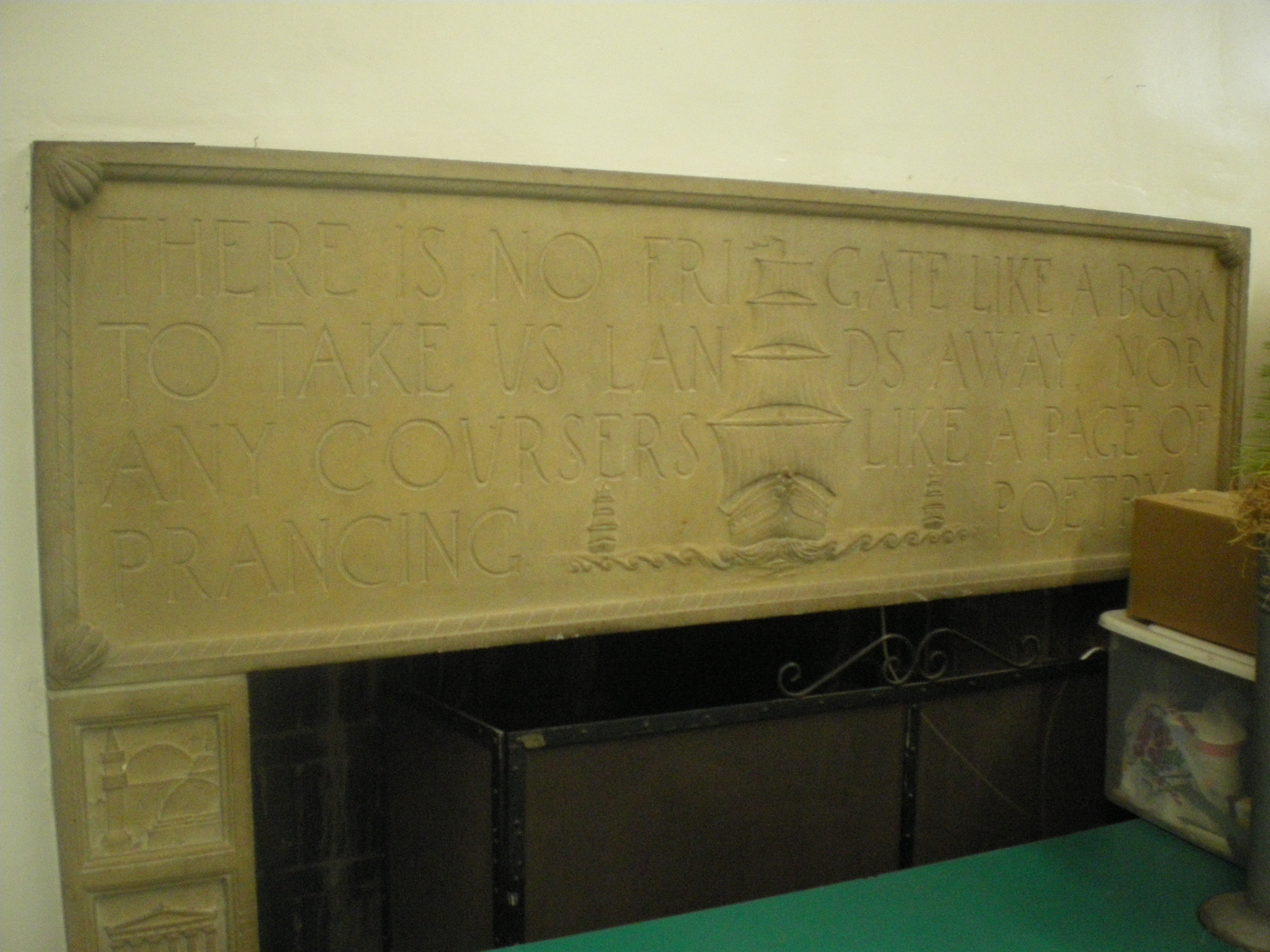 Fireplace at the former Venice Branch Library — in Venice, Los Angeles, California. On the National Register of Historic Places.